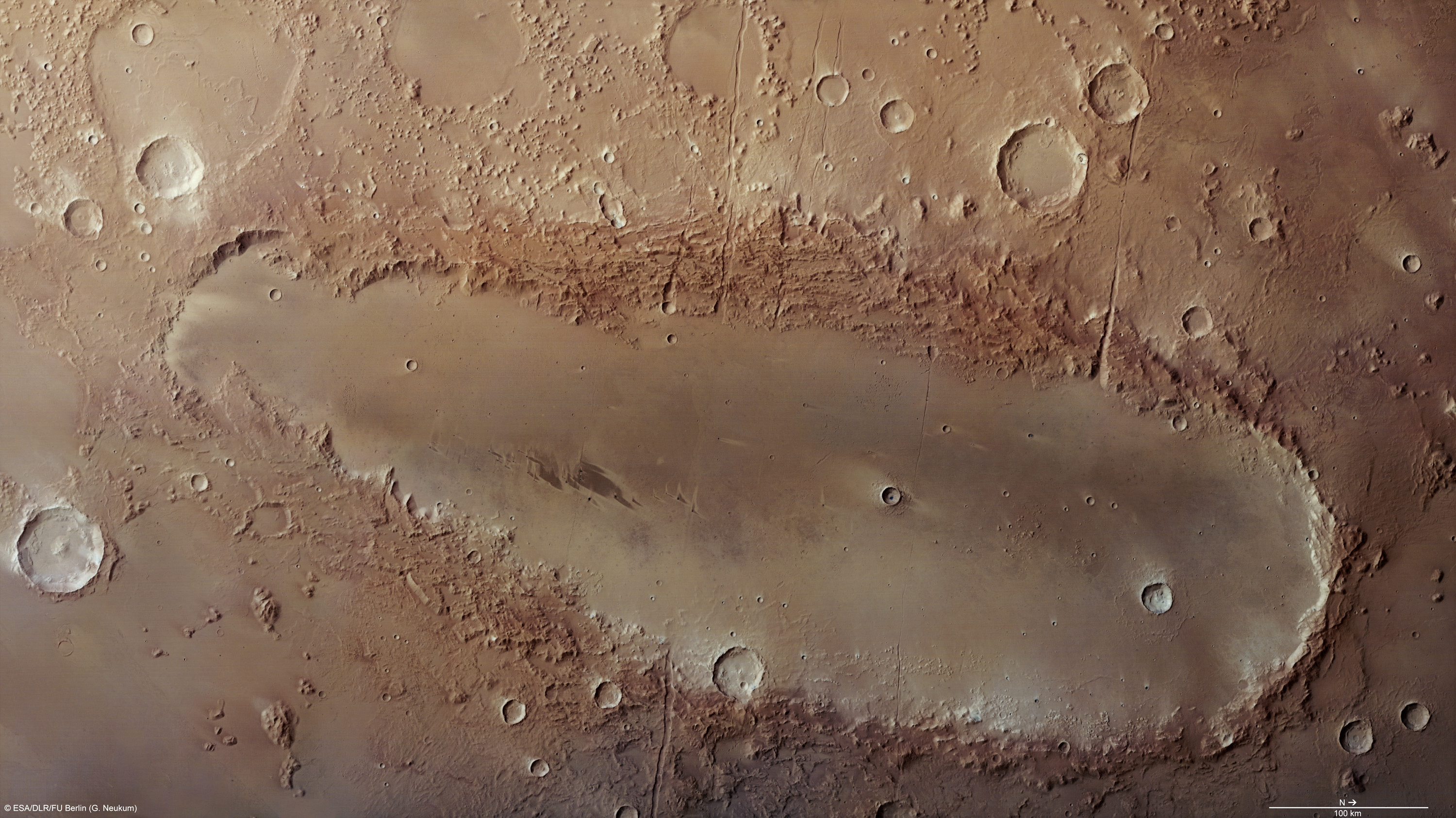 Orcus Patera on Mars imaged by the HRSC instrument aboard Mars Express.